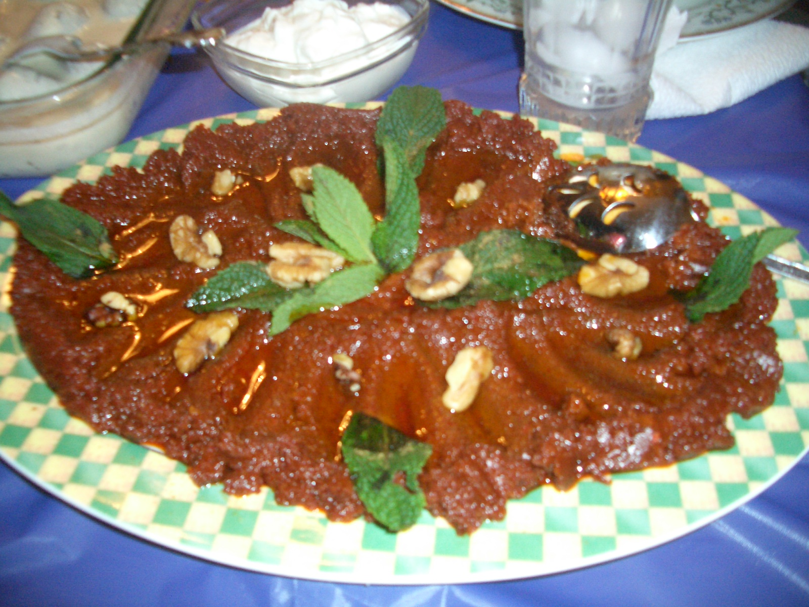 Muhammara